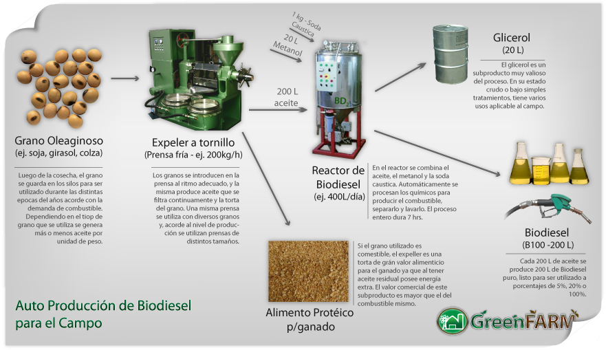 A graphical and didactic explanation of farm scale biodiesel and cake production using soybeans